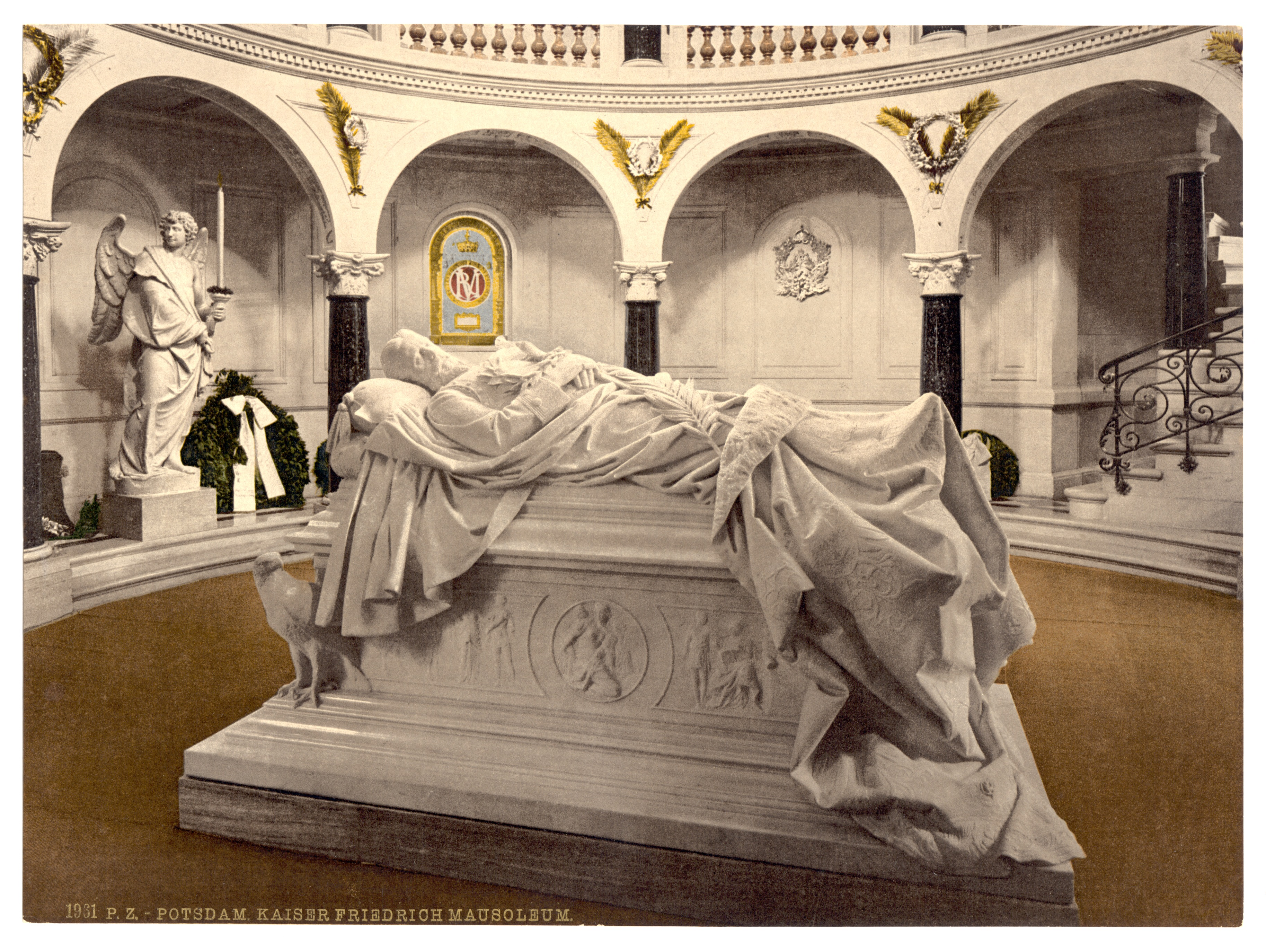 Title from the Detroit Publishing Co., catalogue J-foreign section. Detroit, Mich. : Detroit Photographic Company, 1905..; Forms part of: Views of Germany in the Photochrom print collection.; Print no. "1961".